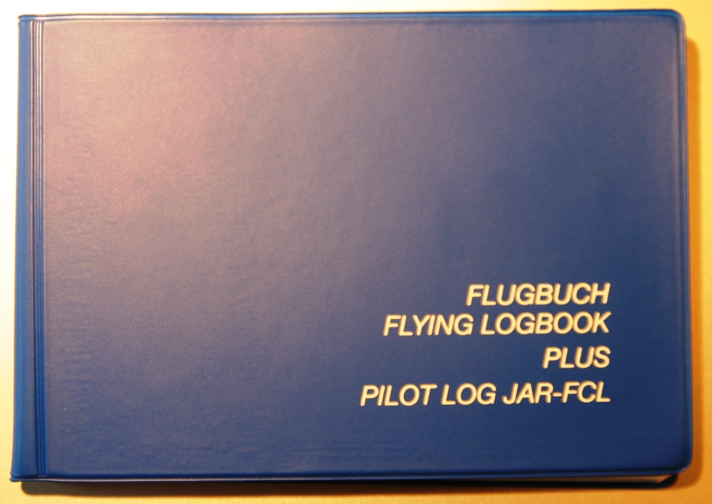 Cover of German Pilot Log